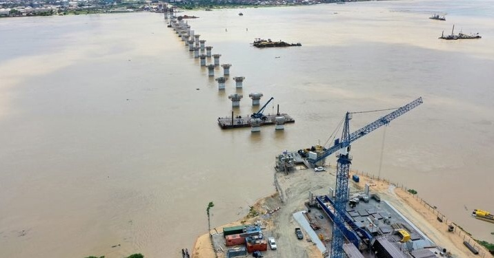 Ongoin construction of the second niger bridge